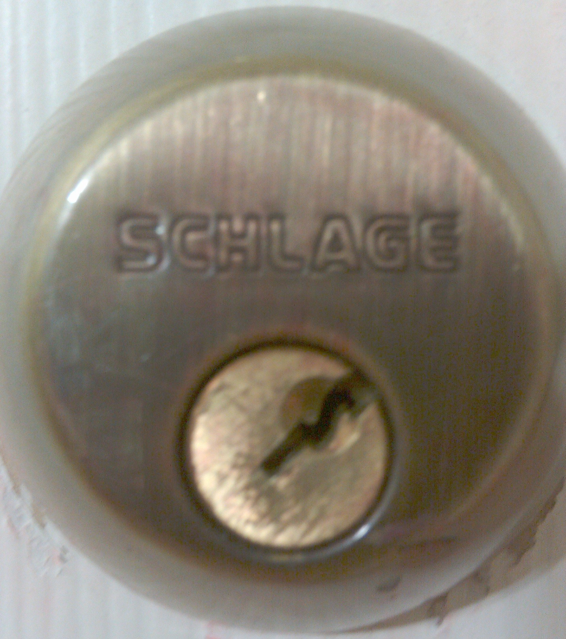 A Schlage deadbolt lock that has been picked, showing that the plug has been turned without the key. This is my own lock, and I picked it myself.